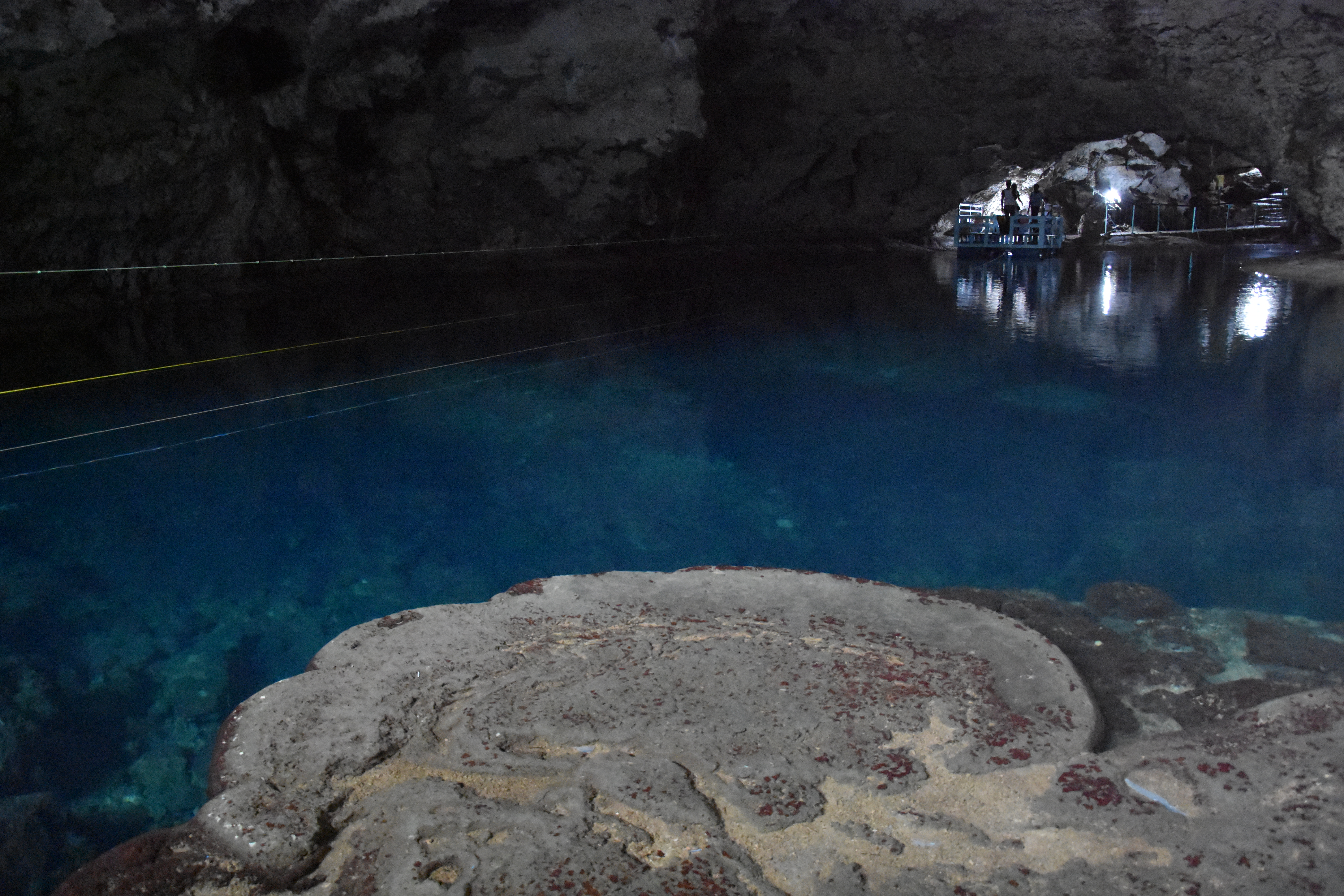 Los Tres Ojos national park in Santo Domingo Este, Dominican Republic.